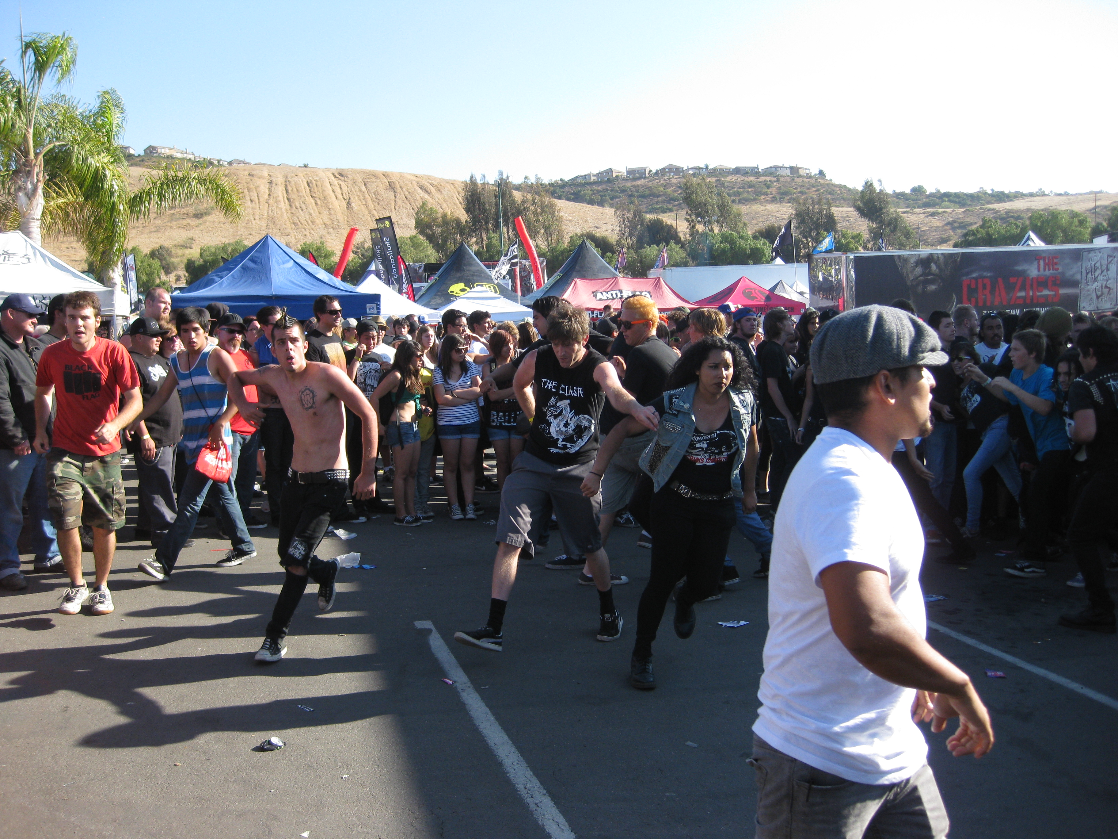 Concertgoes moshing at the Warped Tour at the Cricket Wireless Amphitheatre in Chula Vista, California on August 10, 2010. Illustrates crowd behavior at the event.